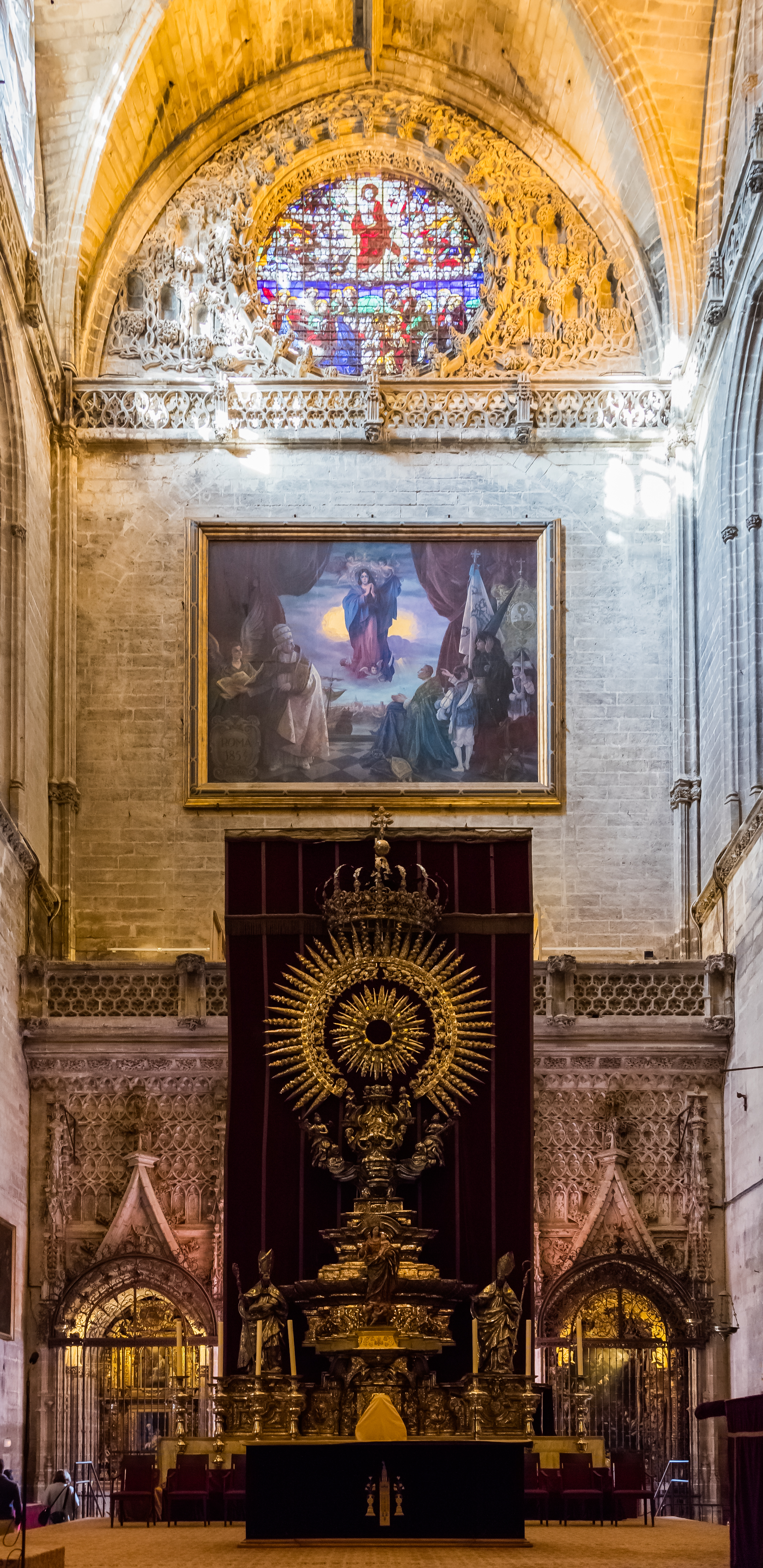 Silver monstrance, Cathedral of Seville, Seville, Spain